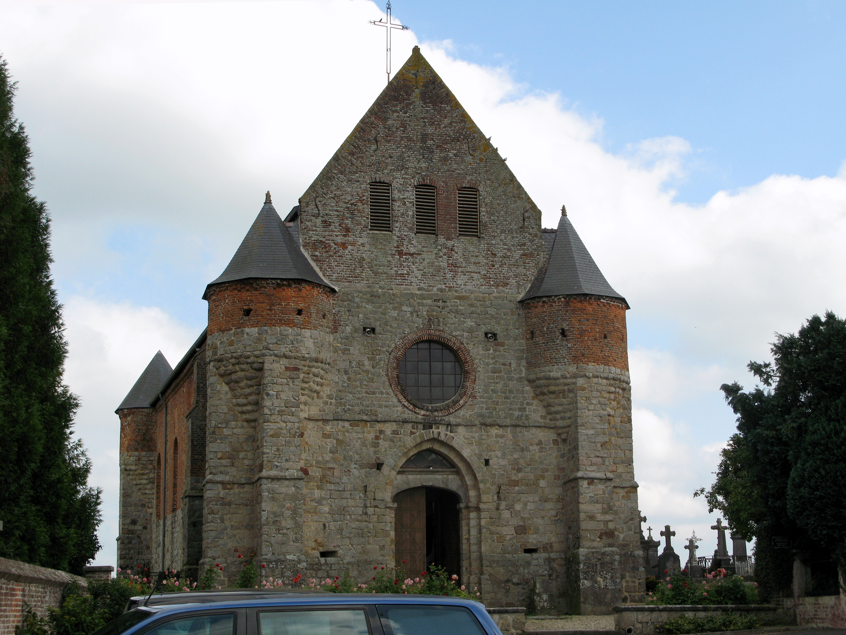 Marly-Gomont (Aisne, France) - L'église Saint-Rémi. . . This edifice is indexed in the base Mérimée, a database of the French architectural patrimony maintained by the French Ministry of Culture, under the reference PA00115809.